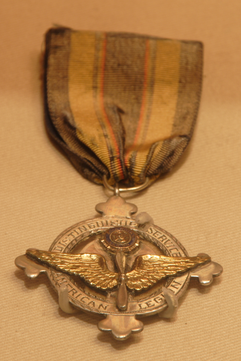 Distinguished Service Medal of the American Legion, awarded to Charles Lindbergh. This medal is on exhibit at the Missouri History Museum, St. Louis, Missouri.